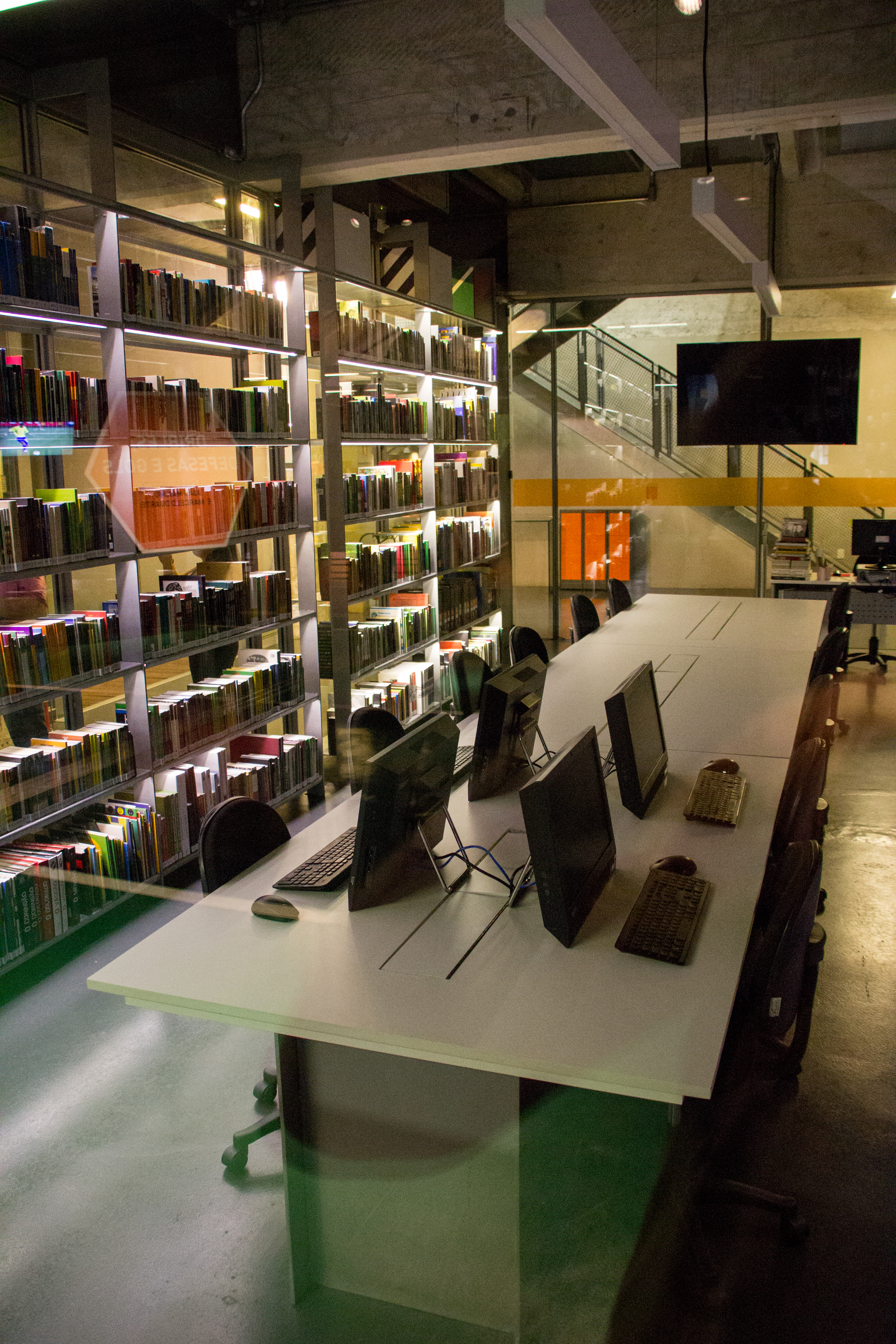 Museu do Futebol, São Paulo, Brazil